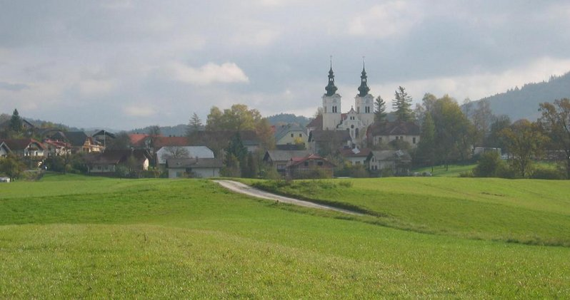 Moravče, town in Slovenia